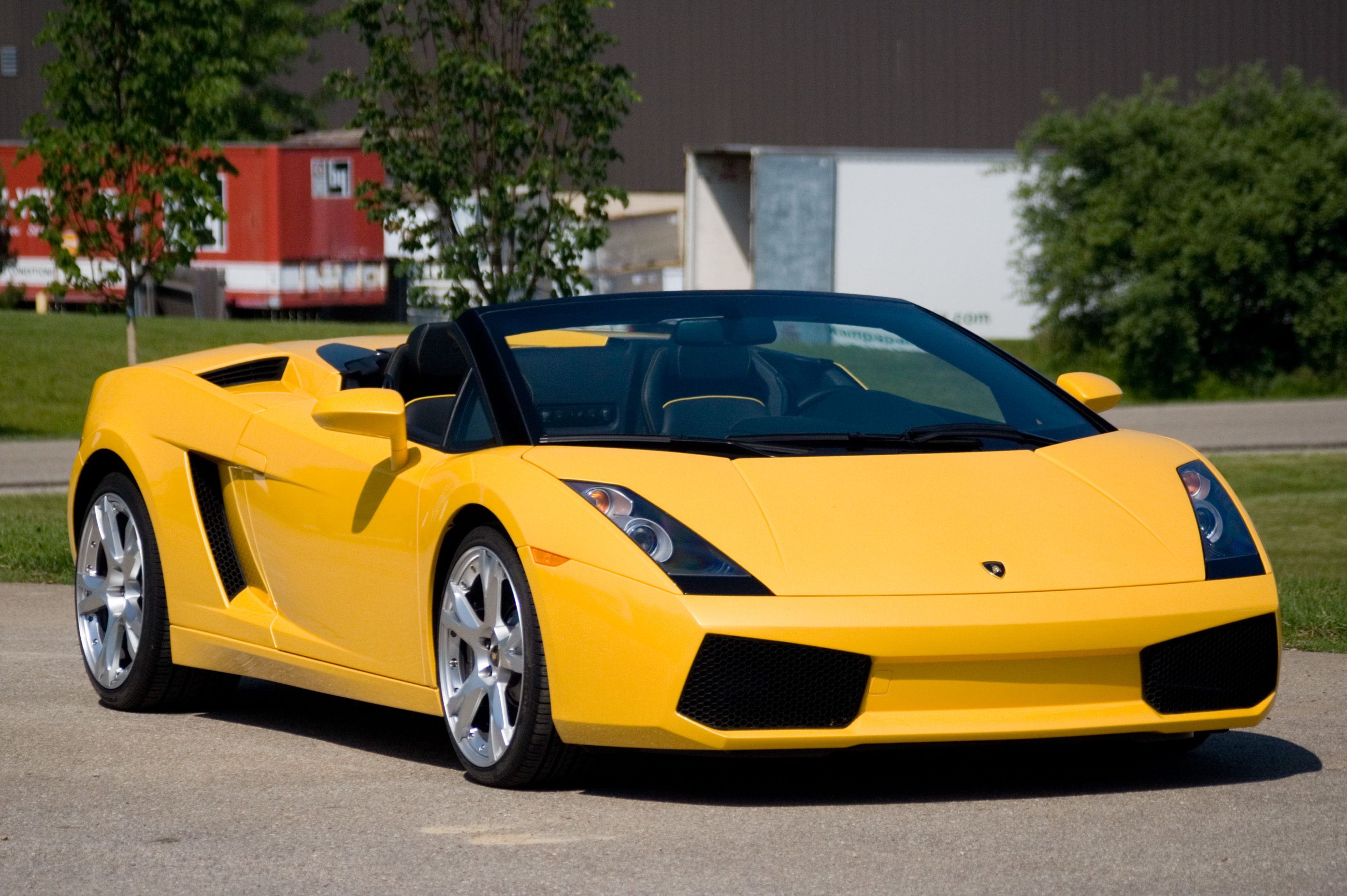 The 2006 Lamborghini Gallardo Spyder with a black soft top convertible.